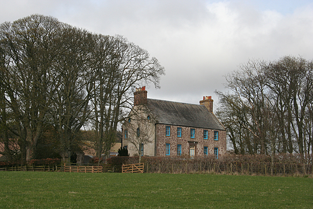 Forebank